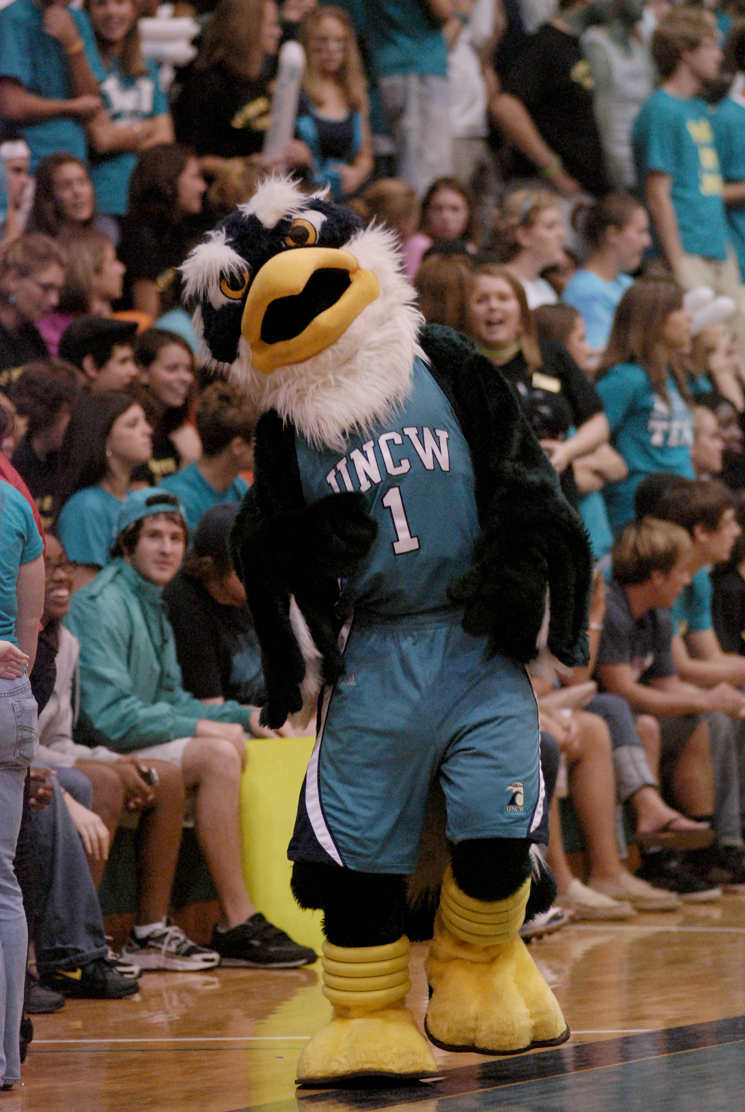 mascot Sammy C. Hawk celebrates Midnight Madness at Trask Coliseum to kickoff the men's and women's basketball season a University of North Carolina at Wilmington